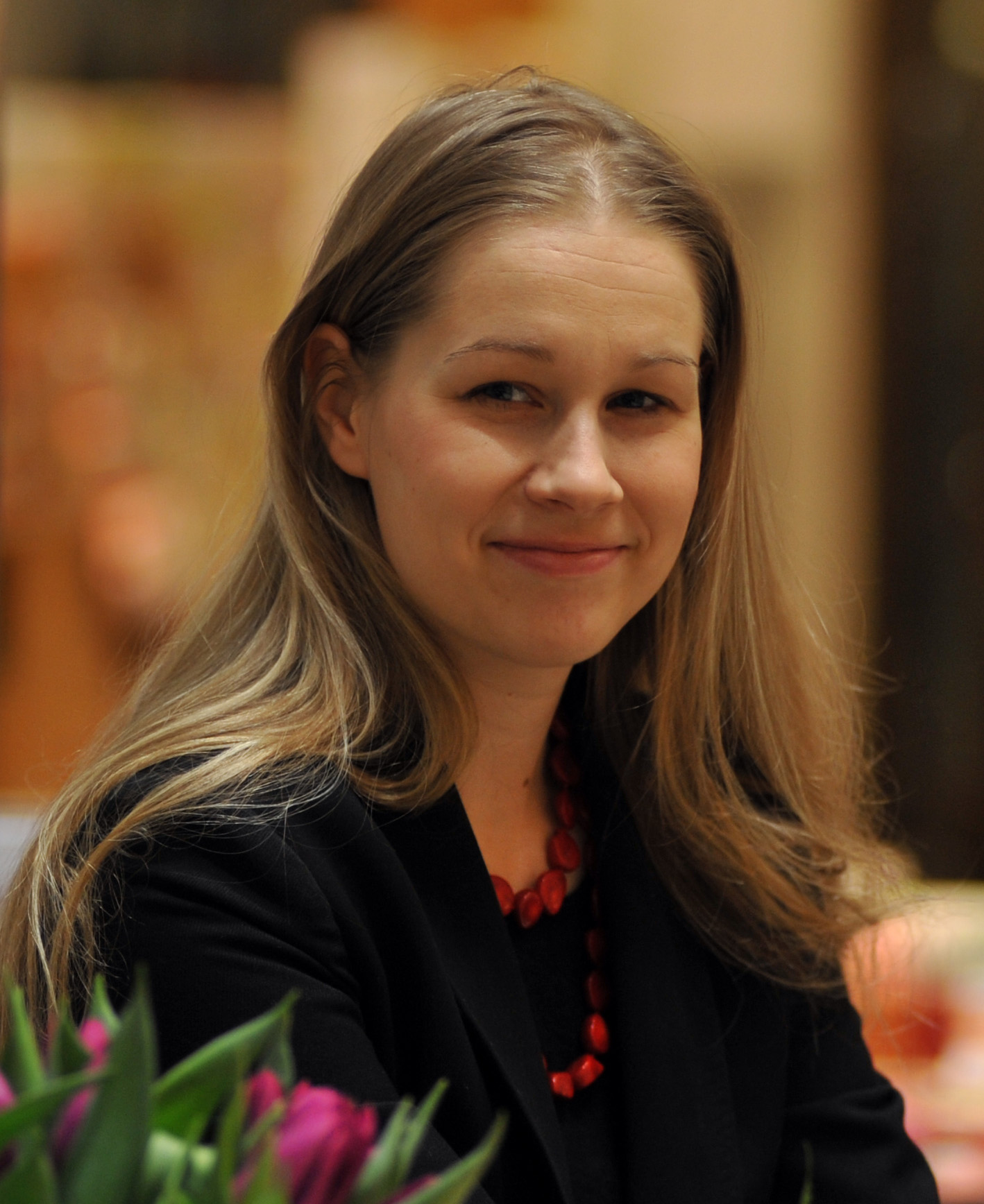 Leena Parkkinen, Finnish writer, Helsinki, January 2010.